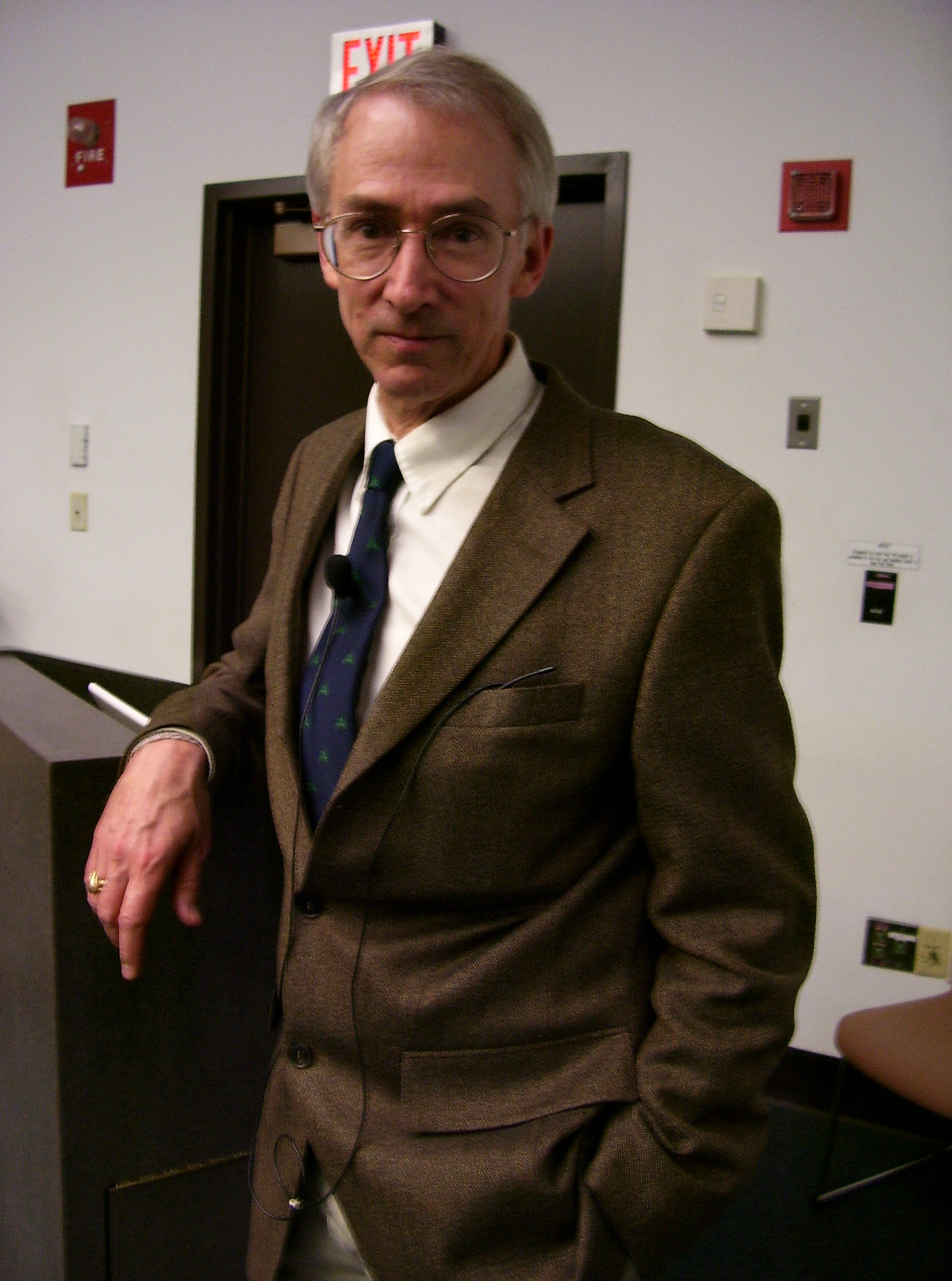 This is an image of the American anthropologist and evolutionary biologist and author David Sloan Wilson, which I took at a lecture he gave promoting his book, Evolution for Everyone: How Darwin's Theory Can Change the Way We Think About Our Lives . In this photo, he is leaning against the podium he used for his talk.